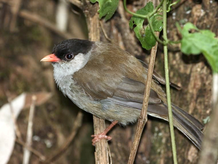 A Bush Blackcap at Giants Castle Game Reserve, KwaZulu-Natal, South Africa.